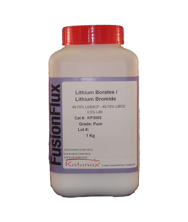 example of lithium metaborate